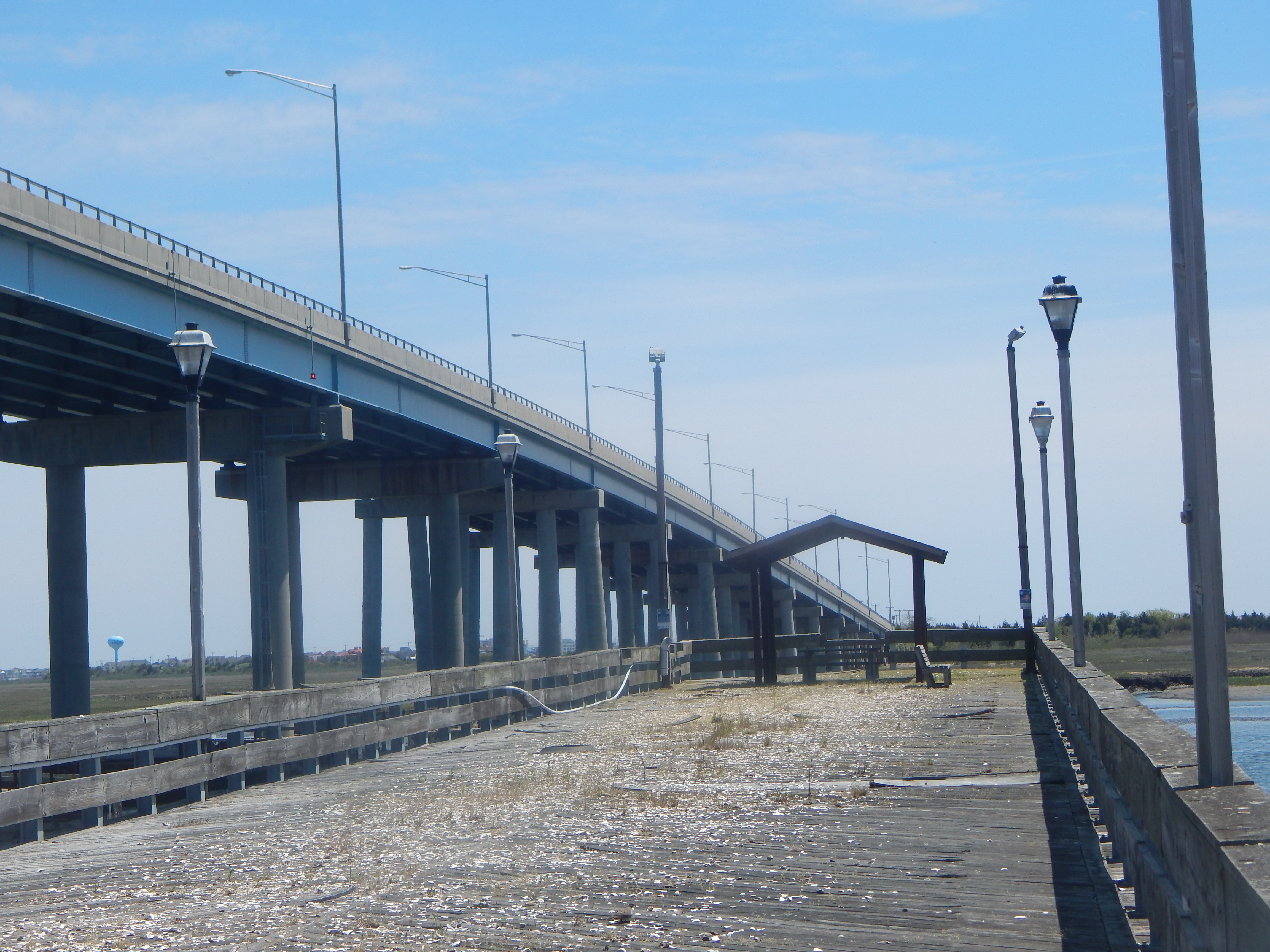 The old alignment of Route 152 in Egg Harbor Township.